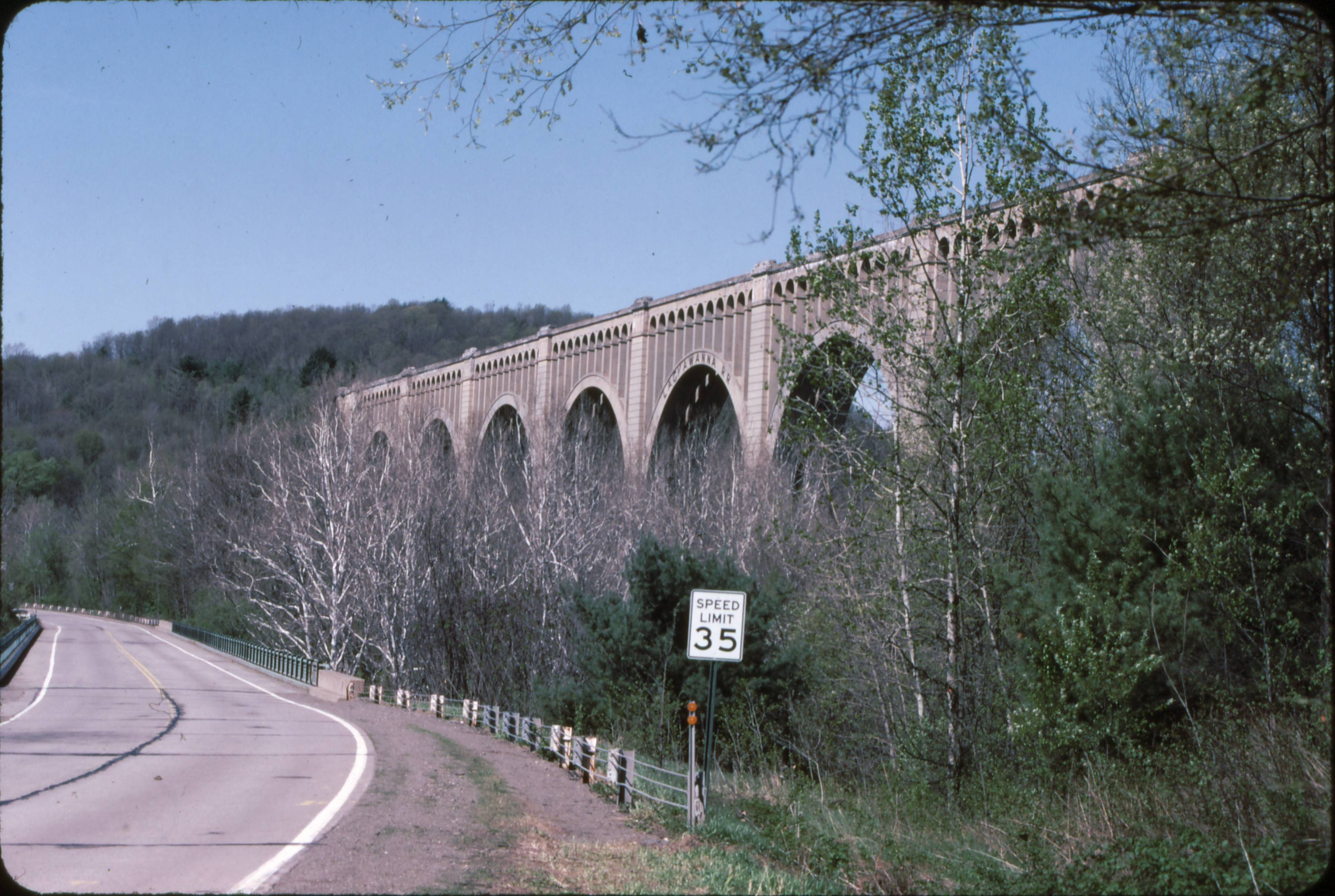 Digital copy from Kodachrome 64 slide. Tunkhannock Viaduct on the Nicholson Cutoff.